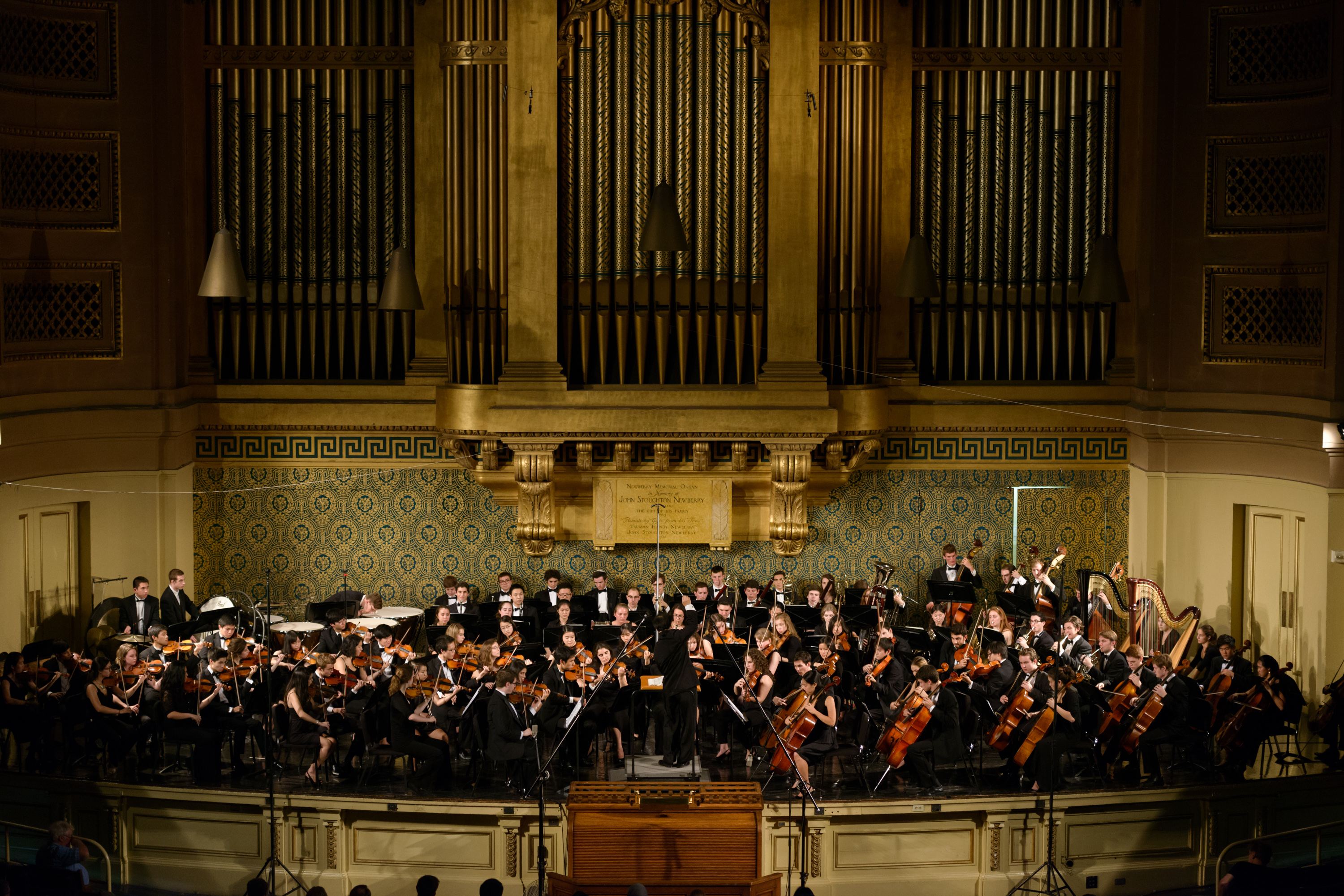 The Yale Symphony Orchestra, conducted by music director Toshiyuki Shimada, performs in Woolsey Hall on September, 27 2014 in New Haven, Connecticut.